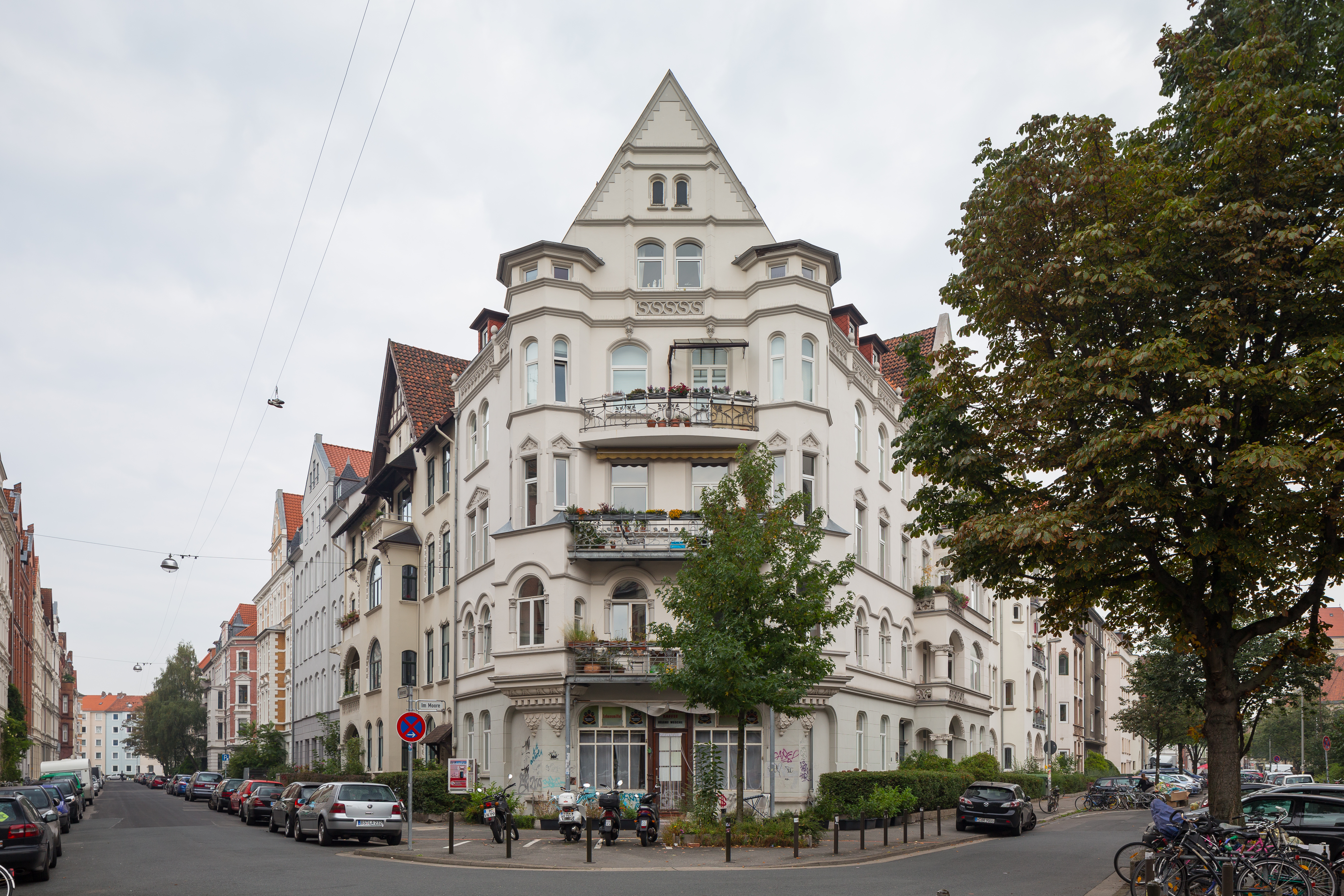 Apartment house located at Asternstrasse and Im Moore in Nordstadt district of Hannover, Germany.